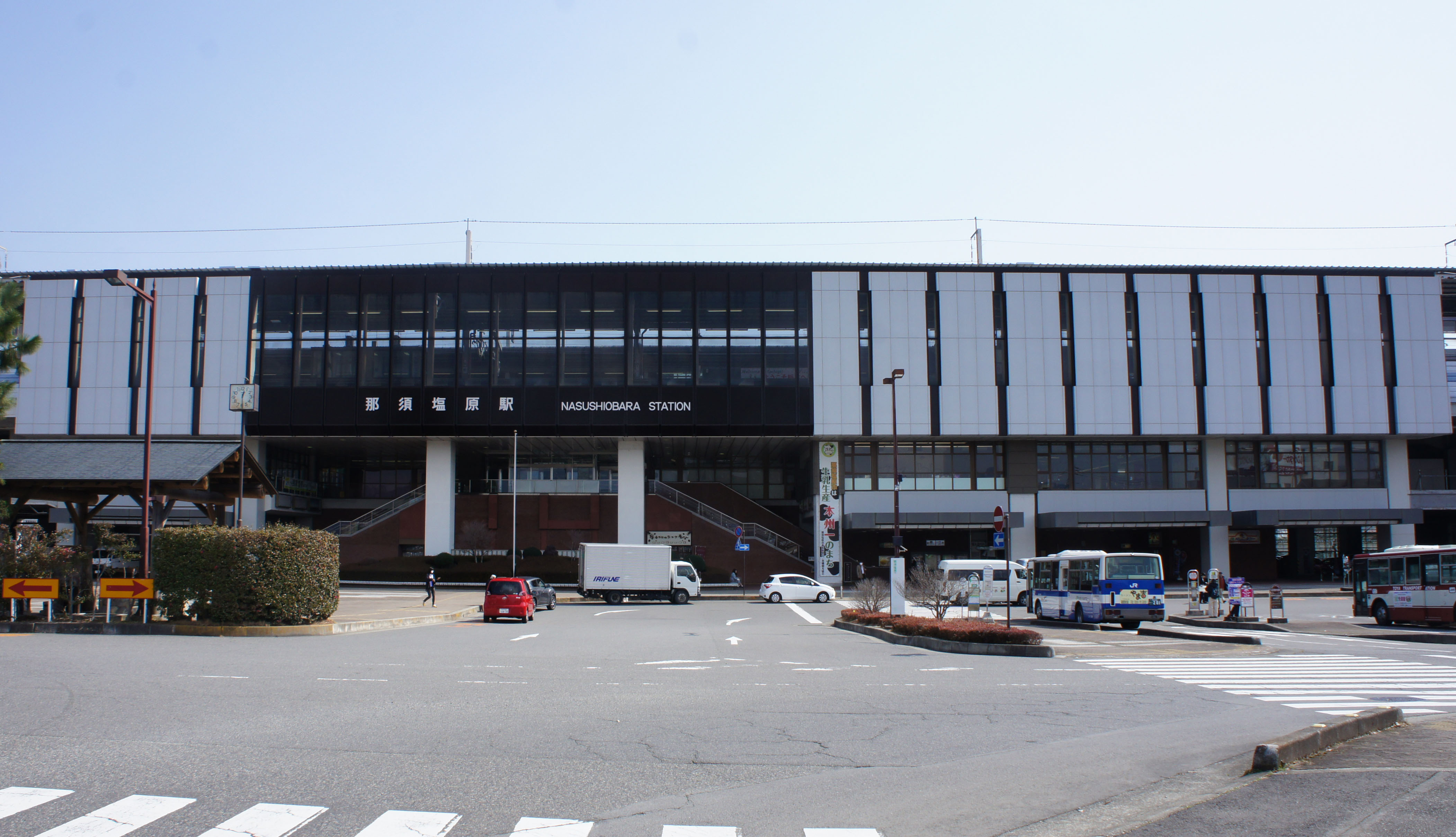 West Exit of JR Nasu-Shiobara Station Sony NEX-3